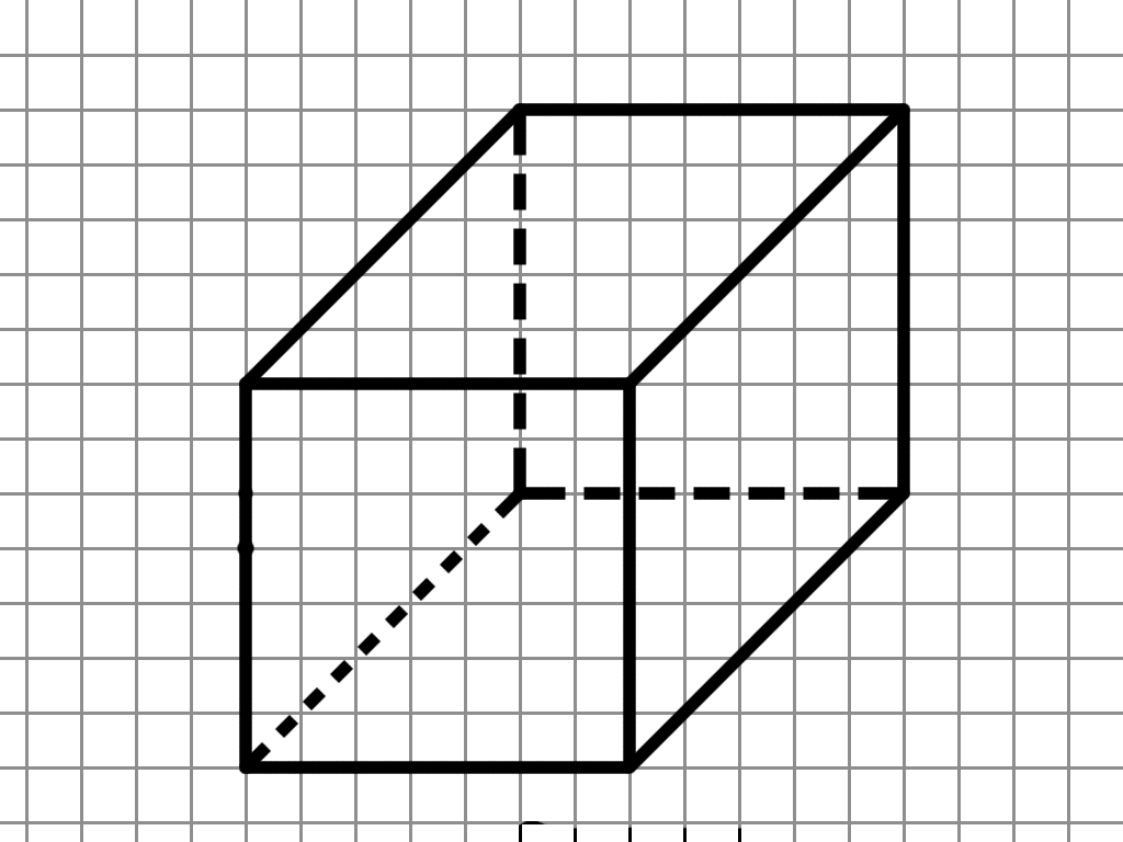 الخطوة الثالثة من عملية رسم المكعب: الوصل بين الخطوط لرسم الأوجه في غير المسقط الأمامي